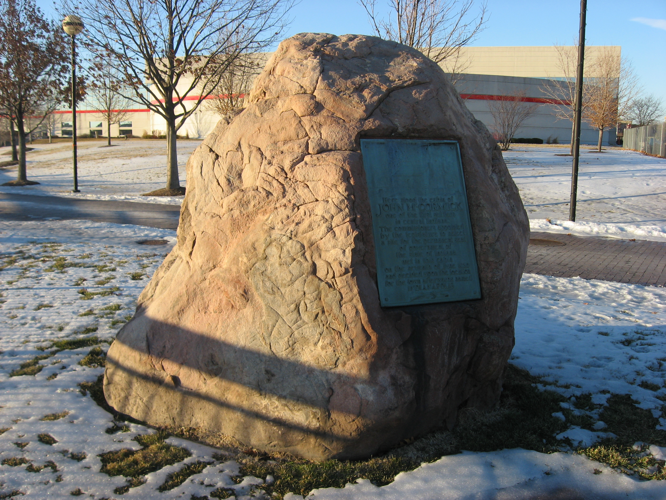 Marker at the site of the cabin of John McCormick, located along the White River at the end of the Indiana Central Canal in Indianapolis, Indiana, United States. McCormick, who settled at the site in the 1810s, was one of the first settlers in central Indiana; at his cabin, commissioners from the state government met in 1820 to determine the site of the new state capital city. Now designated the McCormick Cabin Site, the location is listed on the National Register of Historic Places.